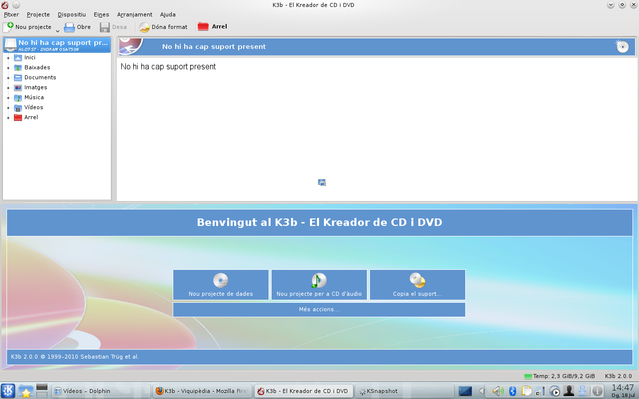 k3b 2.0